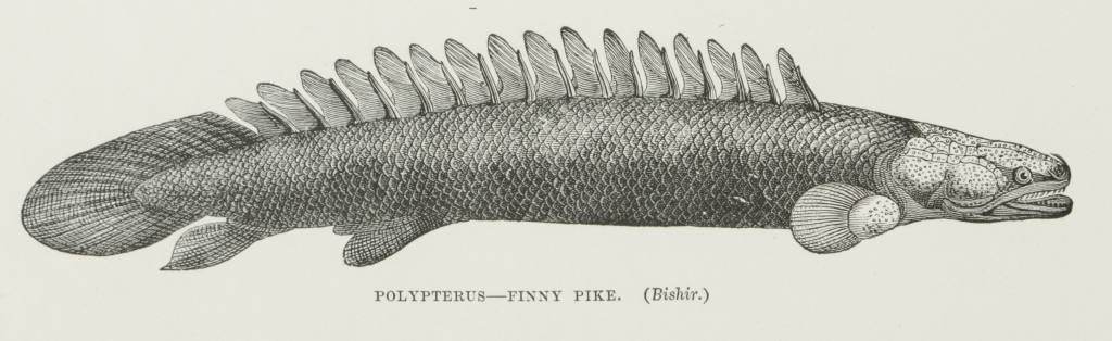 Finny pike, a fish found in Egypt.